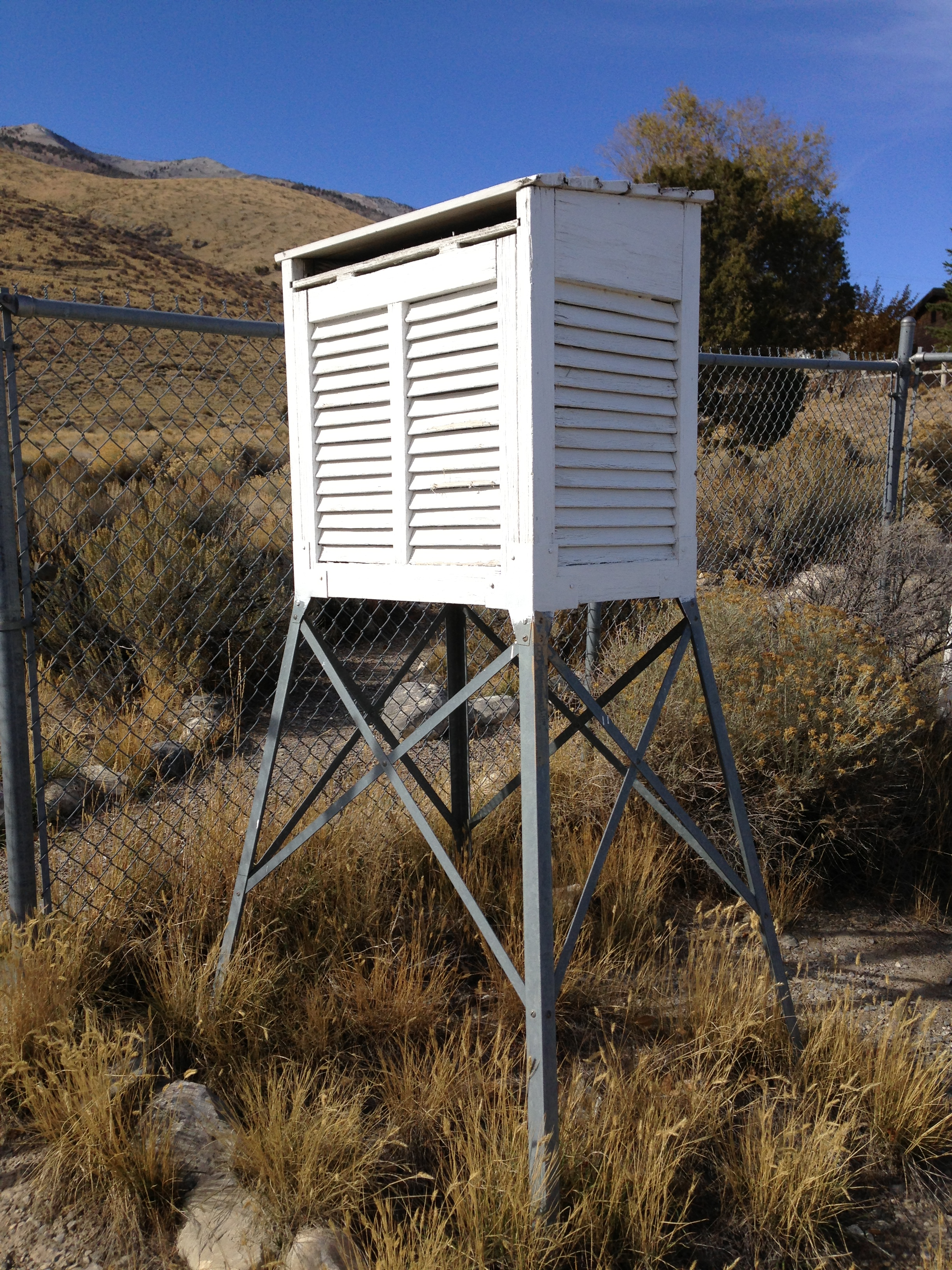 Cotton Region Shelter containing Maximum and Minimum Thermometers viewed from the southeast